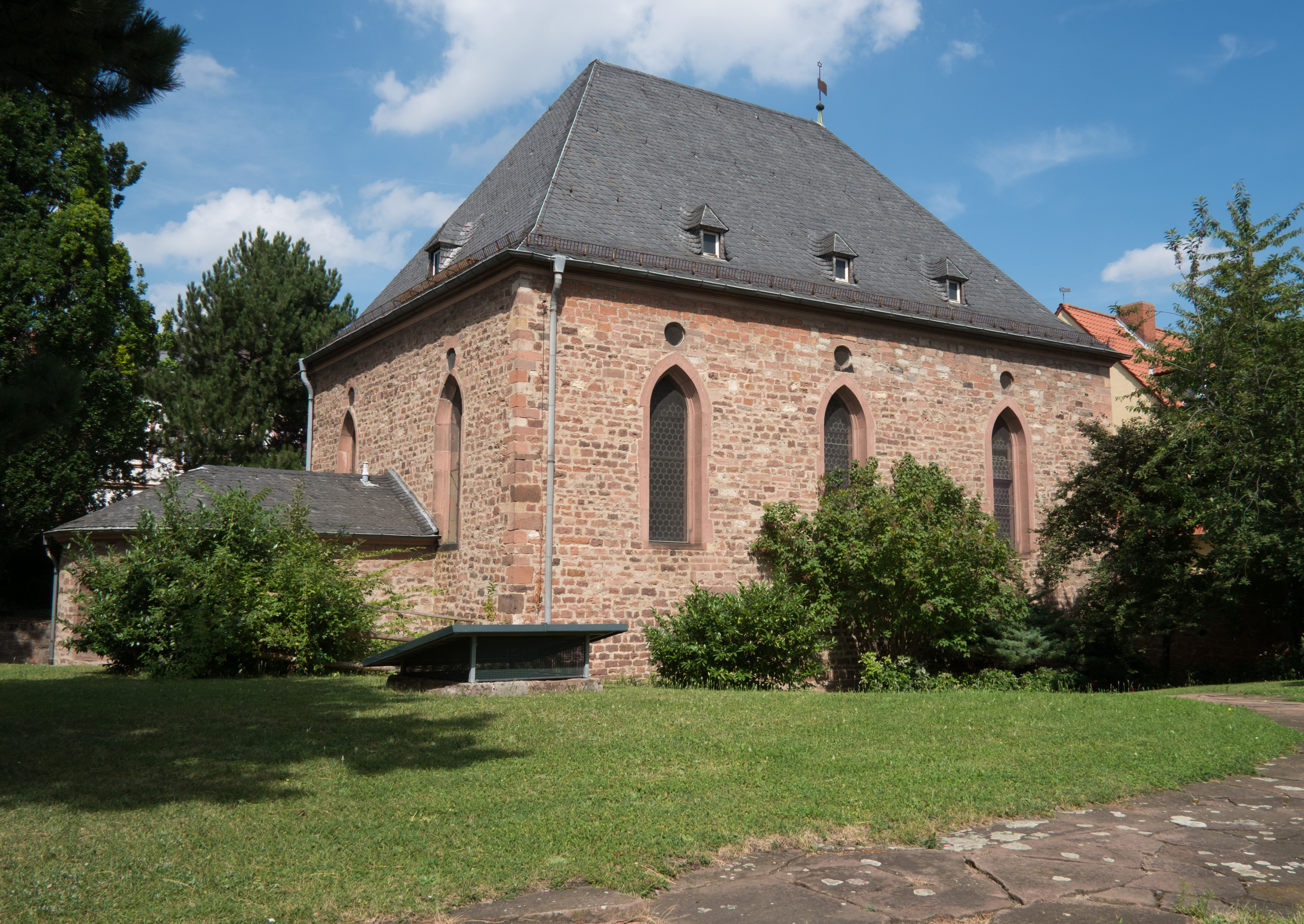 Synagogue Worms, Rhineland-Palatinate, Germany